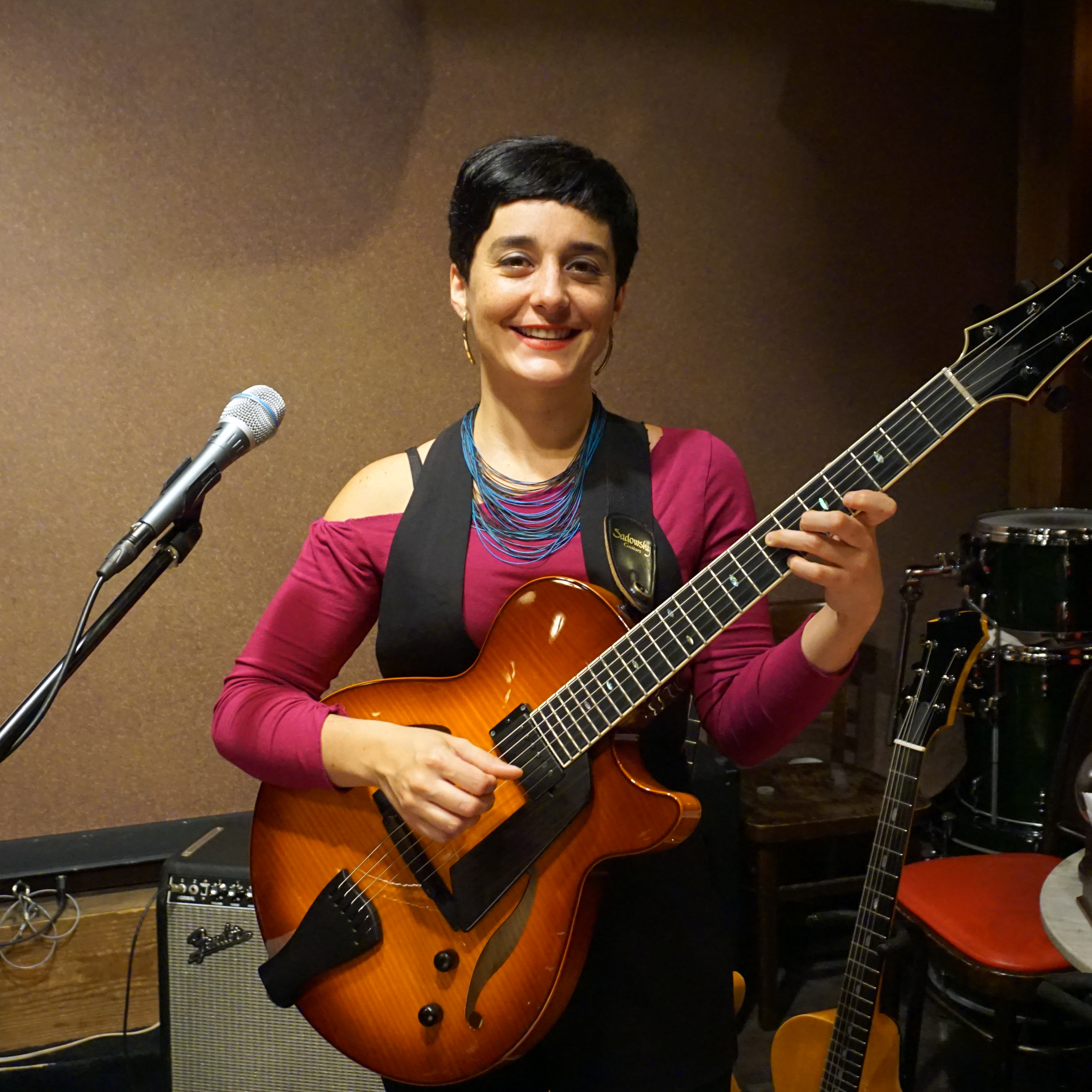 A portrait of Camila Meza took at the stage in a club in Aoyama. She performed as a member of Ryan Keberle & Catharsis. It was allowed by her to take and post it.